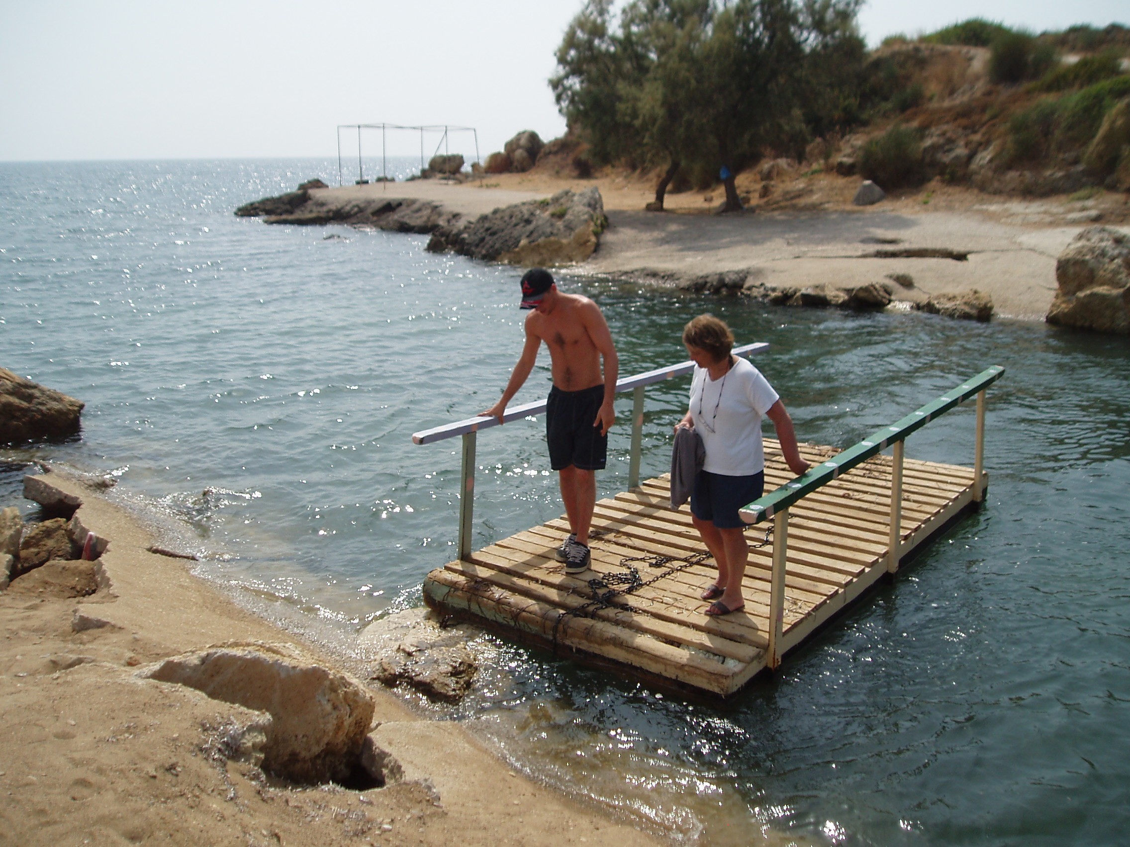 The chain-linked boat used to cross the river at Vatsa Bay, Kefalonia